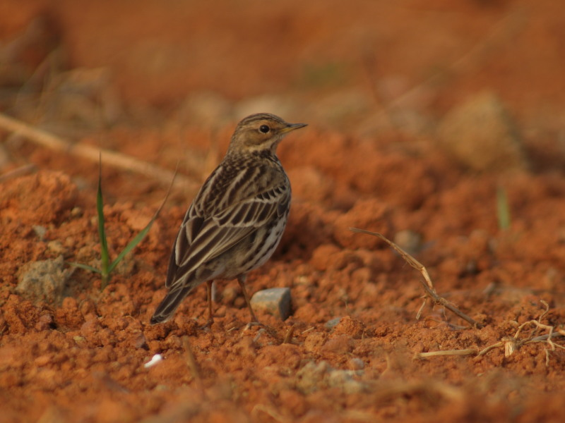 Anthus cervinus 赤喉鷚, Taiwan